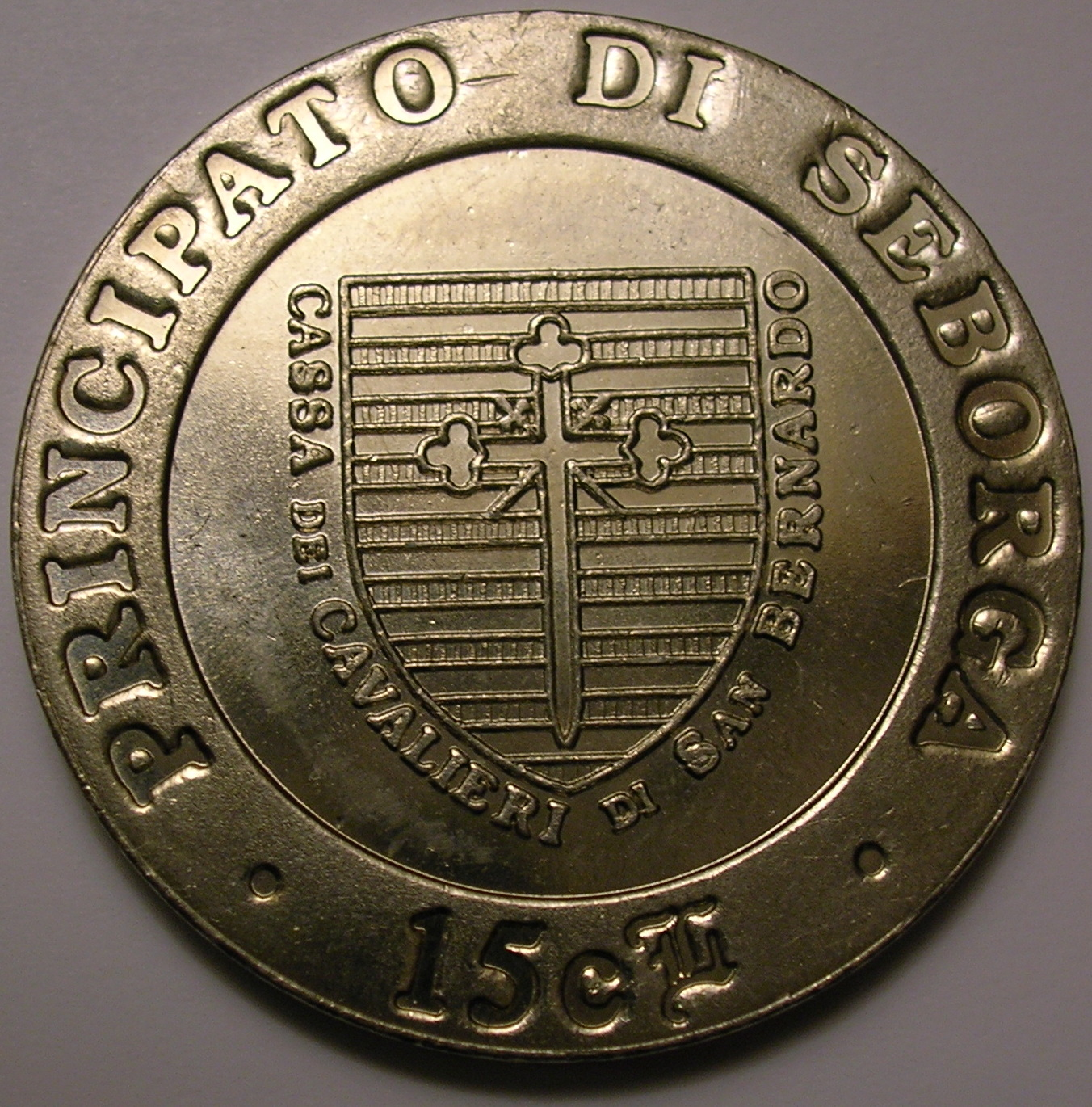 Principality of Seborga - Italy - Reverse - 15c - 1996